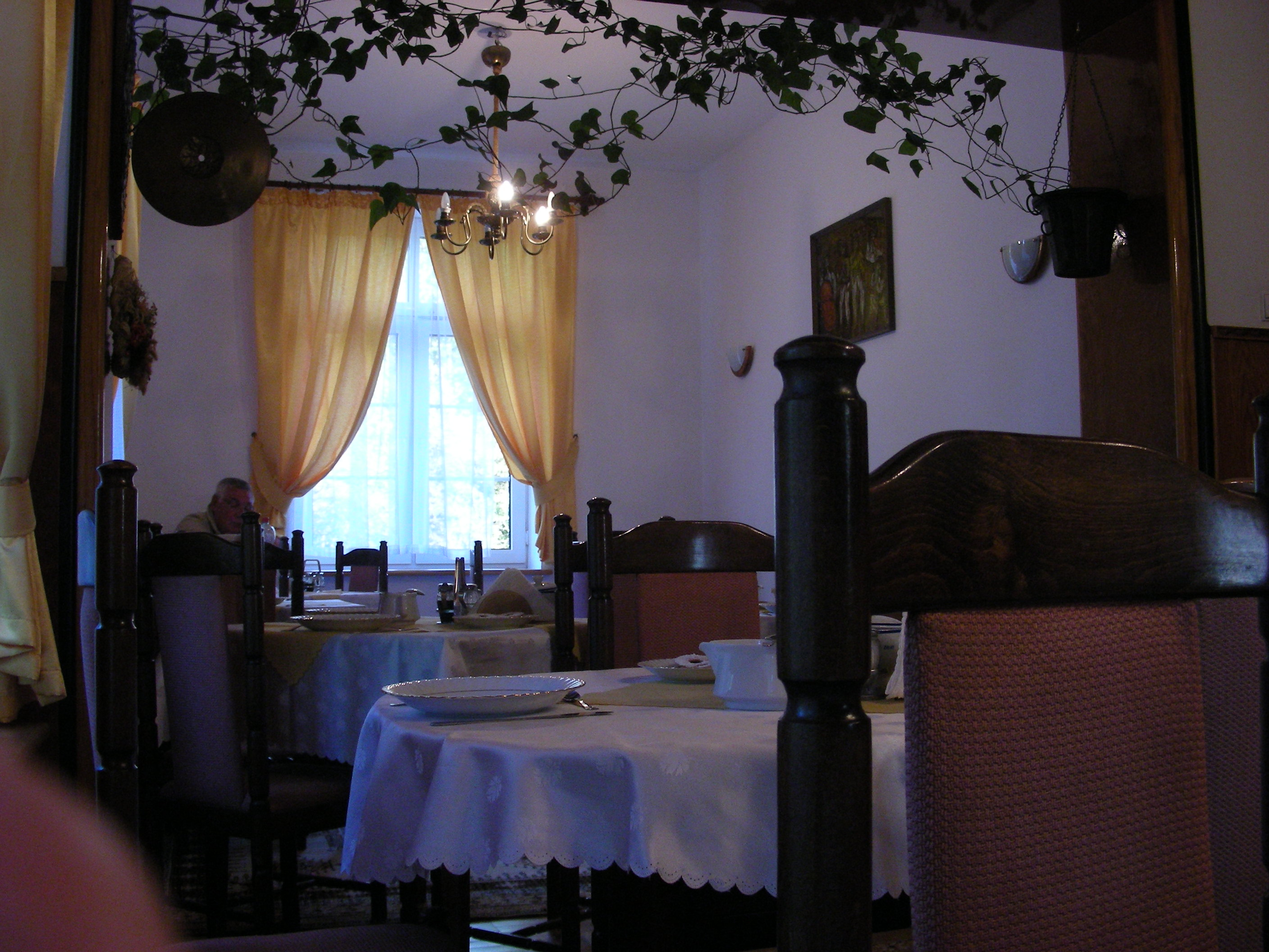 Description Photo of ZAiKS Author's House i Zakopane, Poland Multi-license with CC-BY-SA-3.0 and GFDL